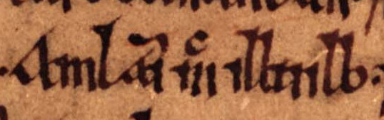 An excerpt from folio 15r of Oxford Bodleian Library MS Rawlinson B 488 (the Annals of Tigernach): "Amlaim mac Illuilb". The excerpt concerns Amlaíb mac Illuilb, King of Scotland (died 977).